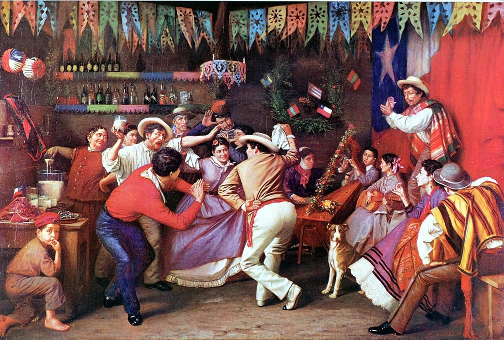 The Zamacueca by Manuel Antonio Caro. Oil on canvas, collection of the Presidency of the Republic of Chile.